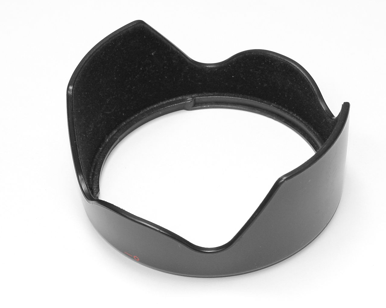 Lens Hood Canon EW-73II in tulip cut. The inner side is made up of a light absorbing material.